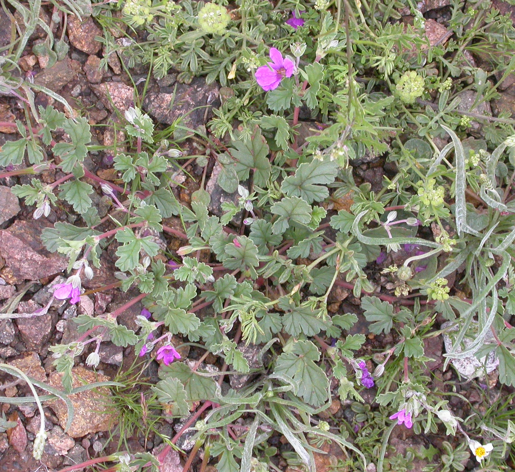 Erodium botrys — species is an introduced weed. In the Voorhis Ecological Reserve at California State Polytechnic University, Pomona, California.